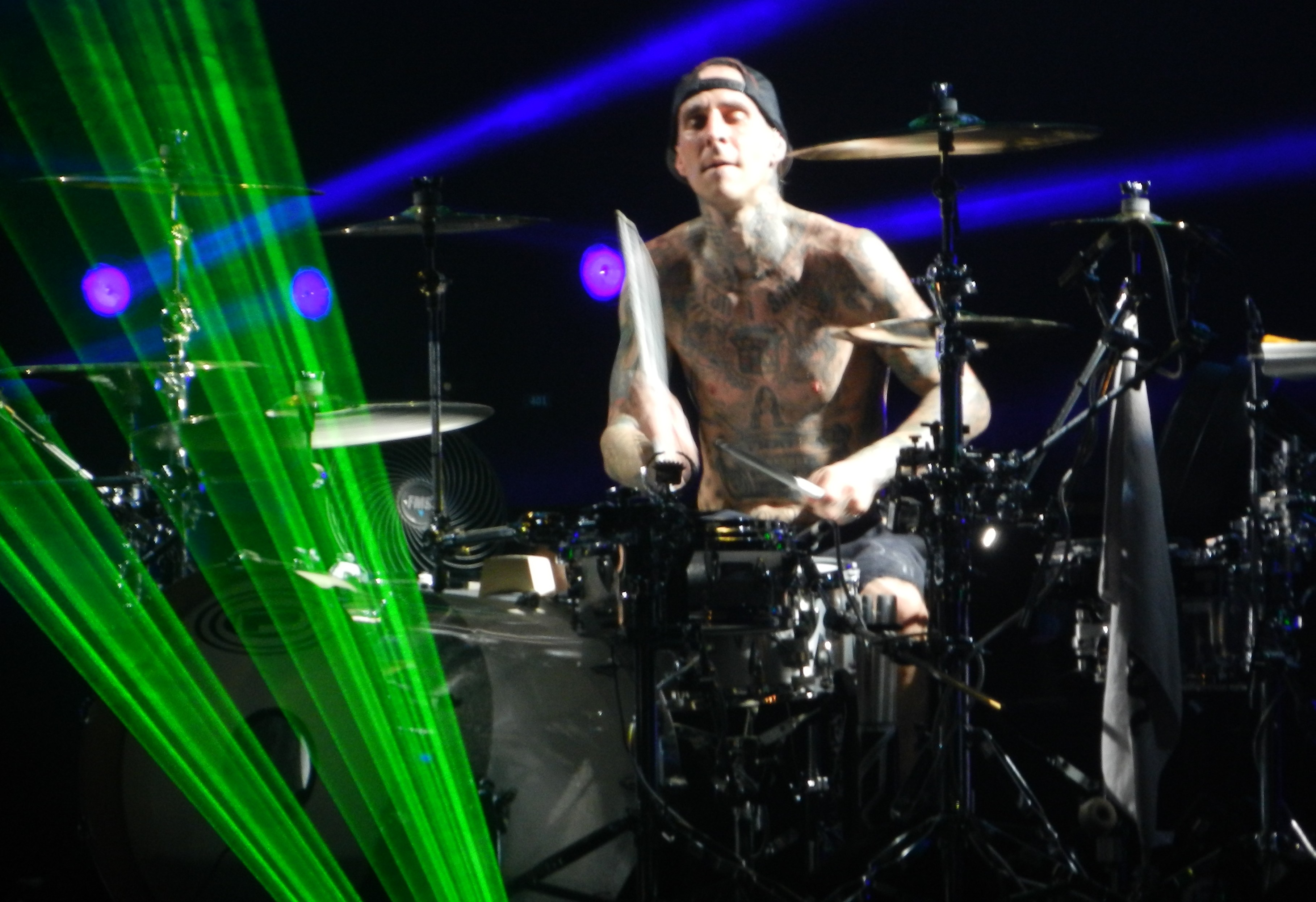 Travis Barker live In 2011.